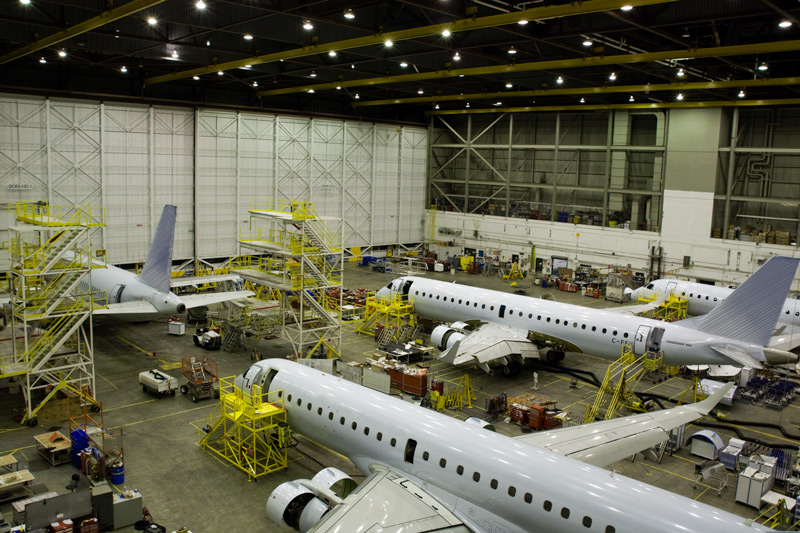 Photograph from inside the Winnipeg facility